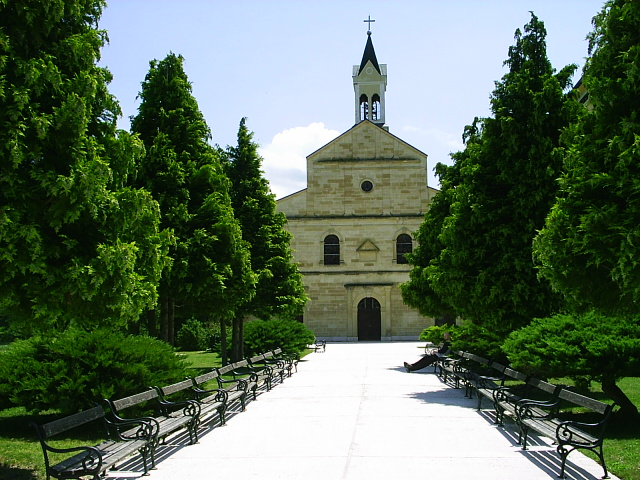 Franciscan monastery Rama-Šćit, Bosnia and Herzegovina